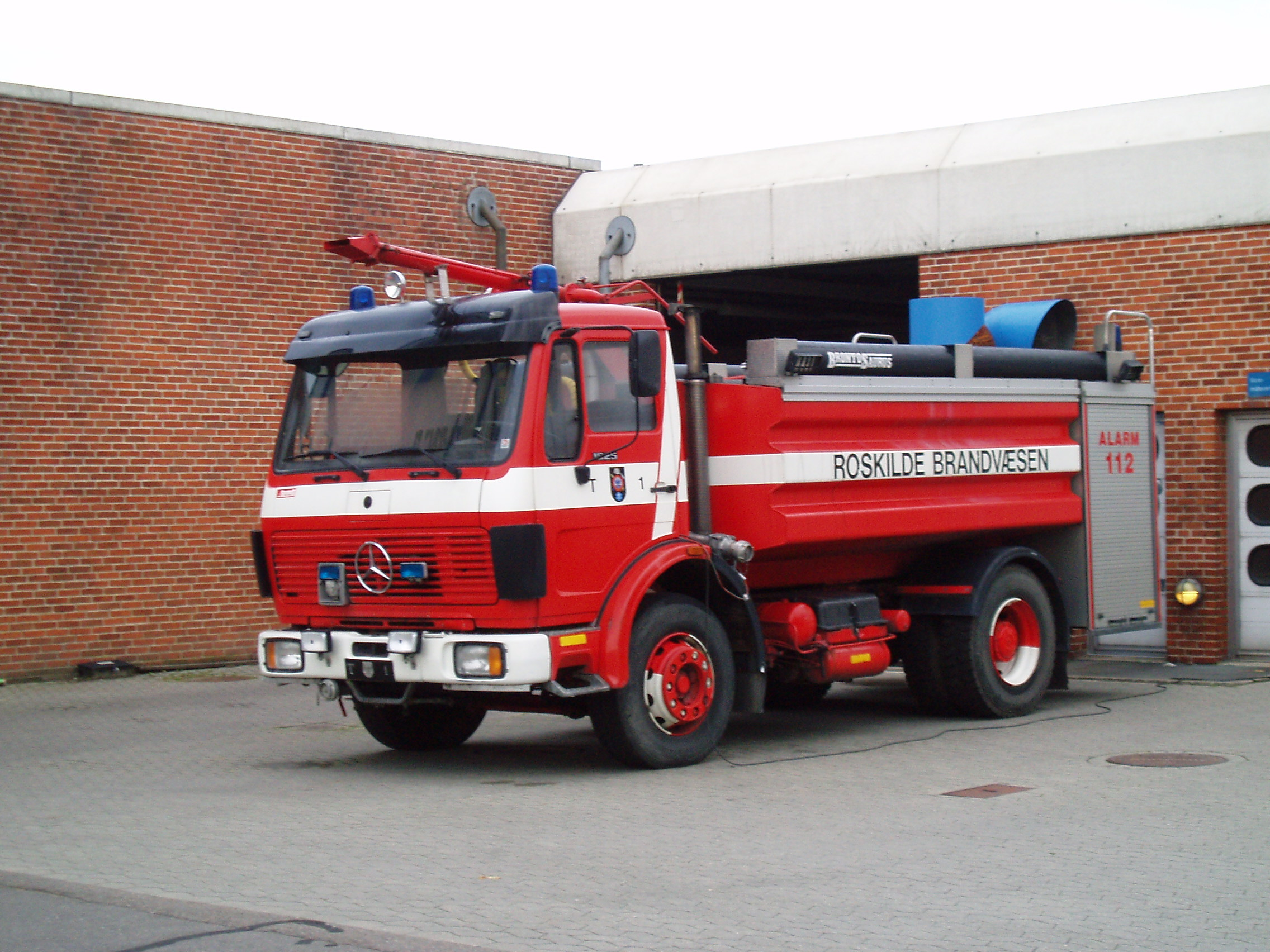 Mercedes-Benz water tender at Roskilde Fire Brigade. Roskilde owns two water tenders. This one is primary water tender for alarms in rural areas. Water cannon behind the cab can be raised by hydraulics.